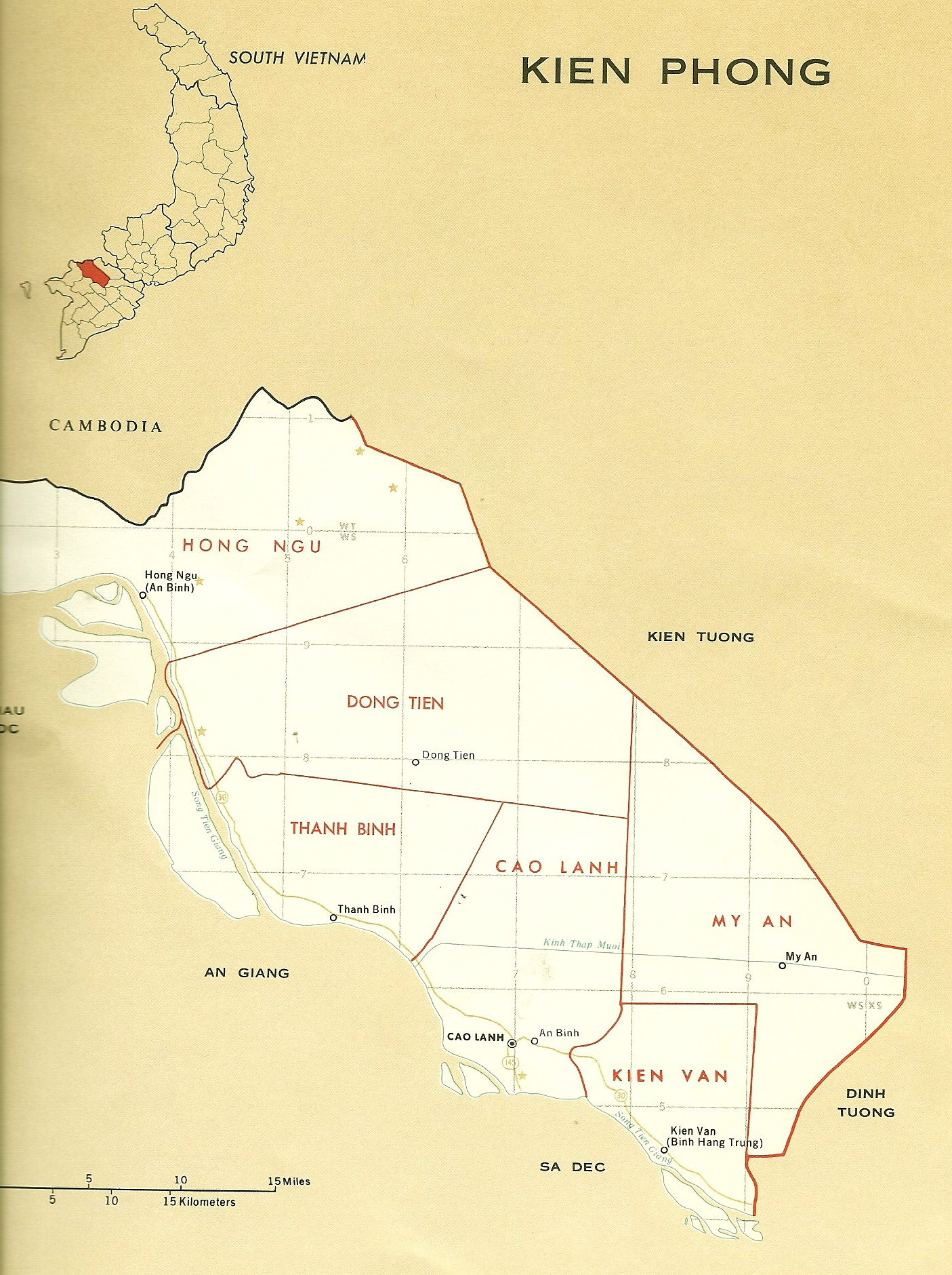 Kien-phong Province